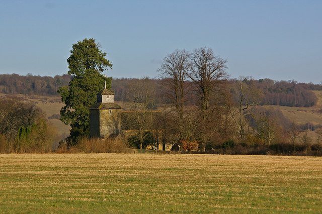 Church of St John the Evangelist, Wotton. See 660279 for close up and more info.